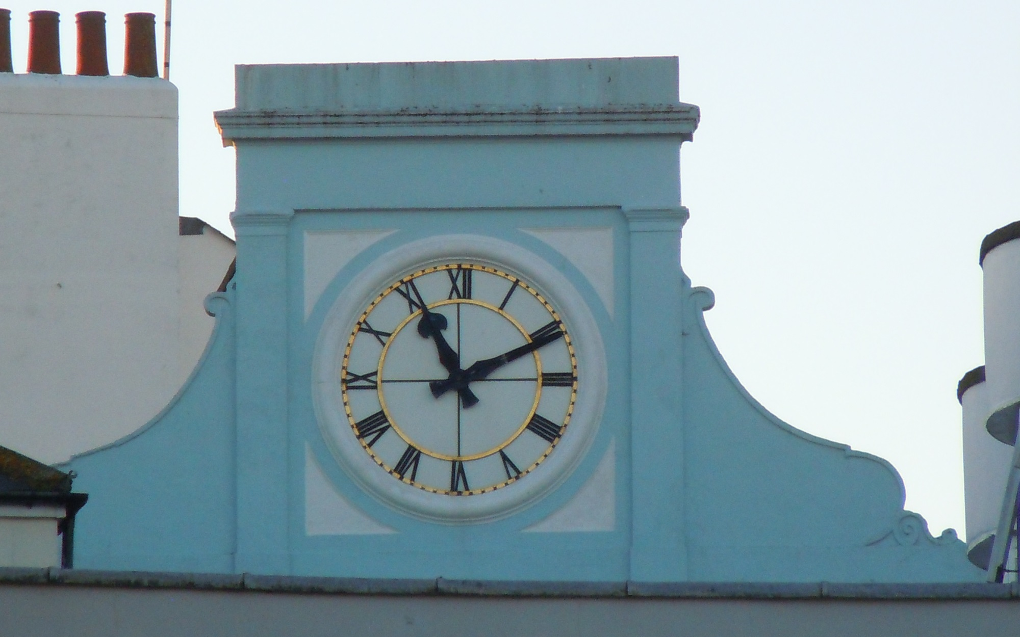 Former Hanningtons Department Store, East Street/Market Street/North Street, Brighton, City of Brighton and Hove, East Sussex. Founded in 1808 by Smith Hannington. Continued as a department store until 2001. Listed at Grade II by English Heritage (IoE Code 480663). This shows the well-known clock above the 1989 bridge over Market Street.